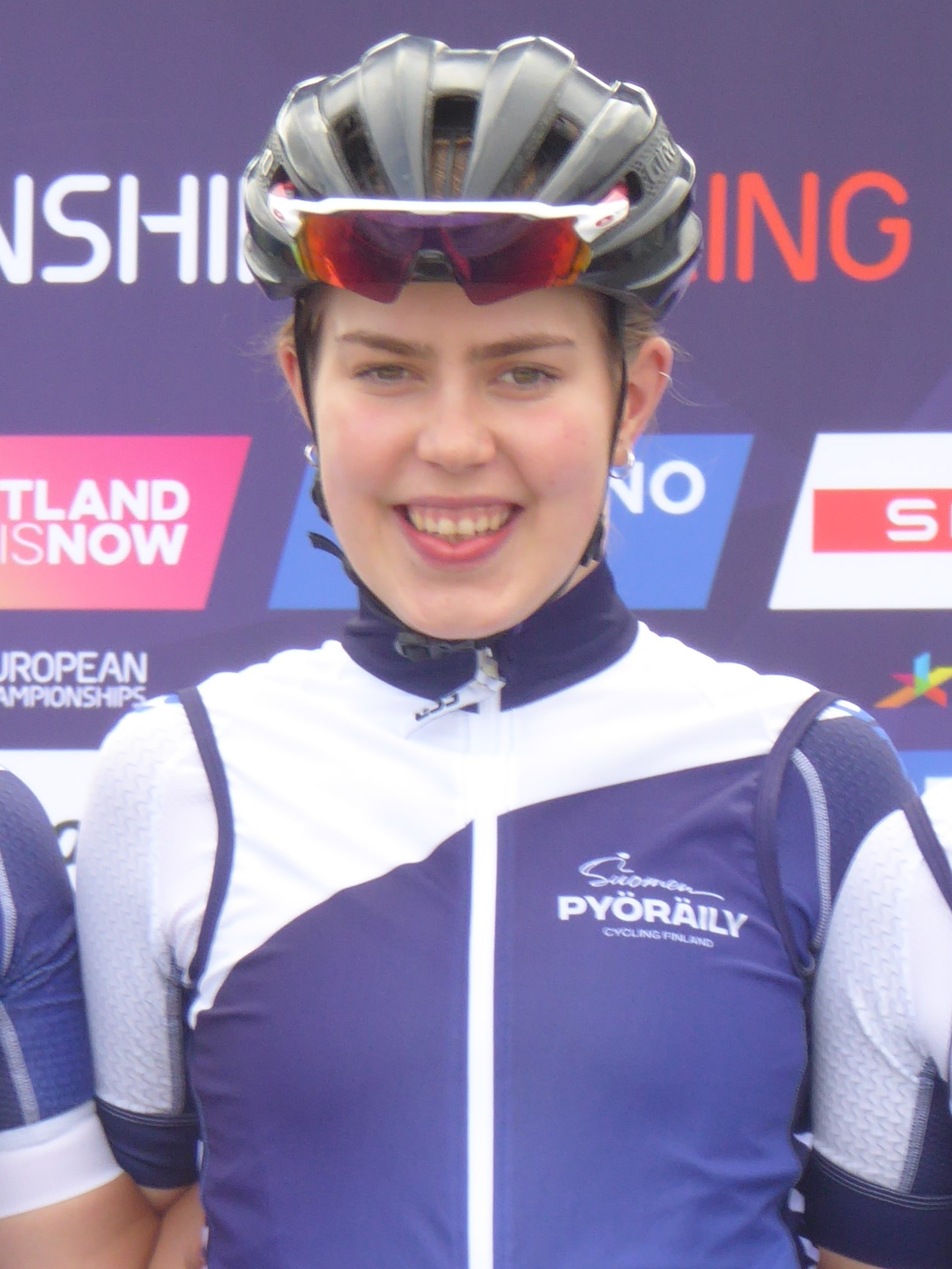 Antonia Gröndahl (Finland), prior to the women's road race at the 2018 UEC European Road Cycling Championships in Glasgow.